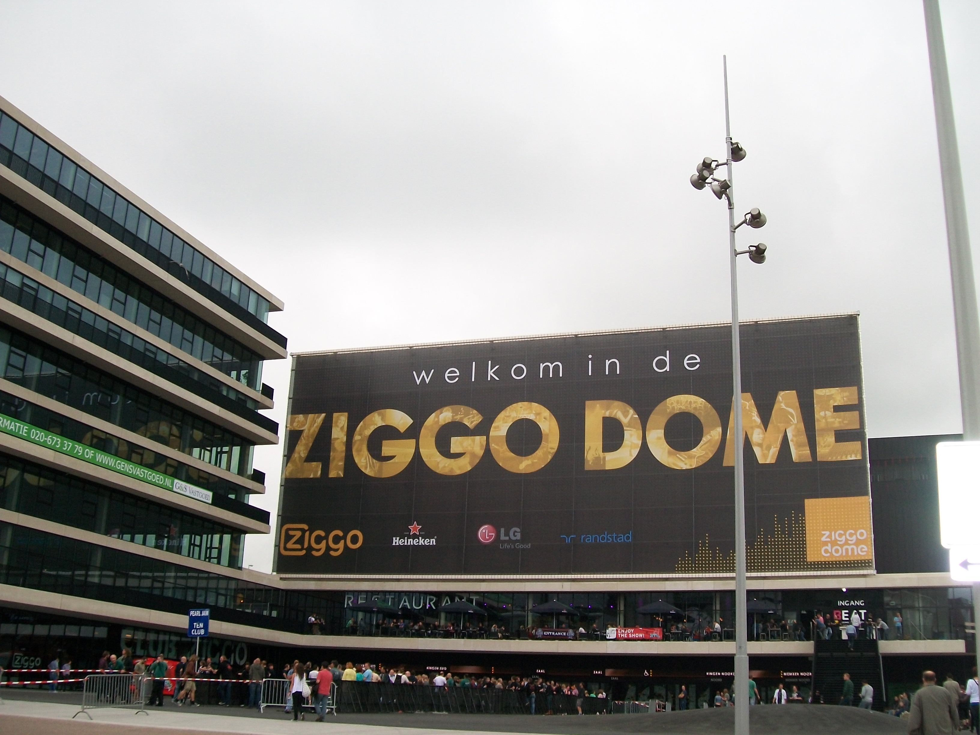 Picture I took of the Ziggo Dome in Amsterdam on 26th June 2012.